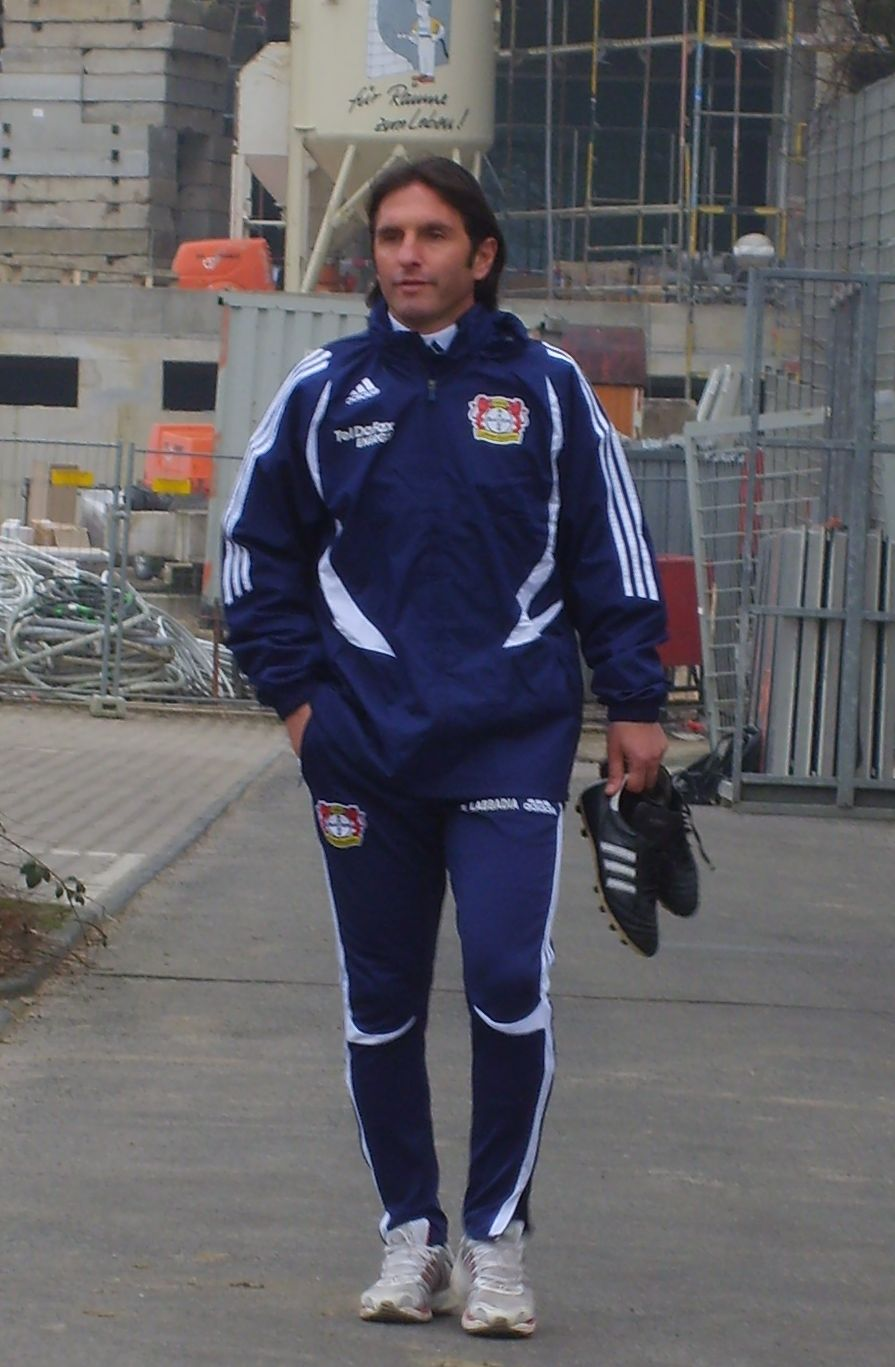 Bruno Labbadia